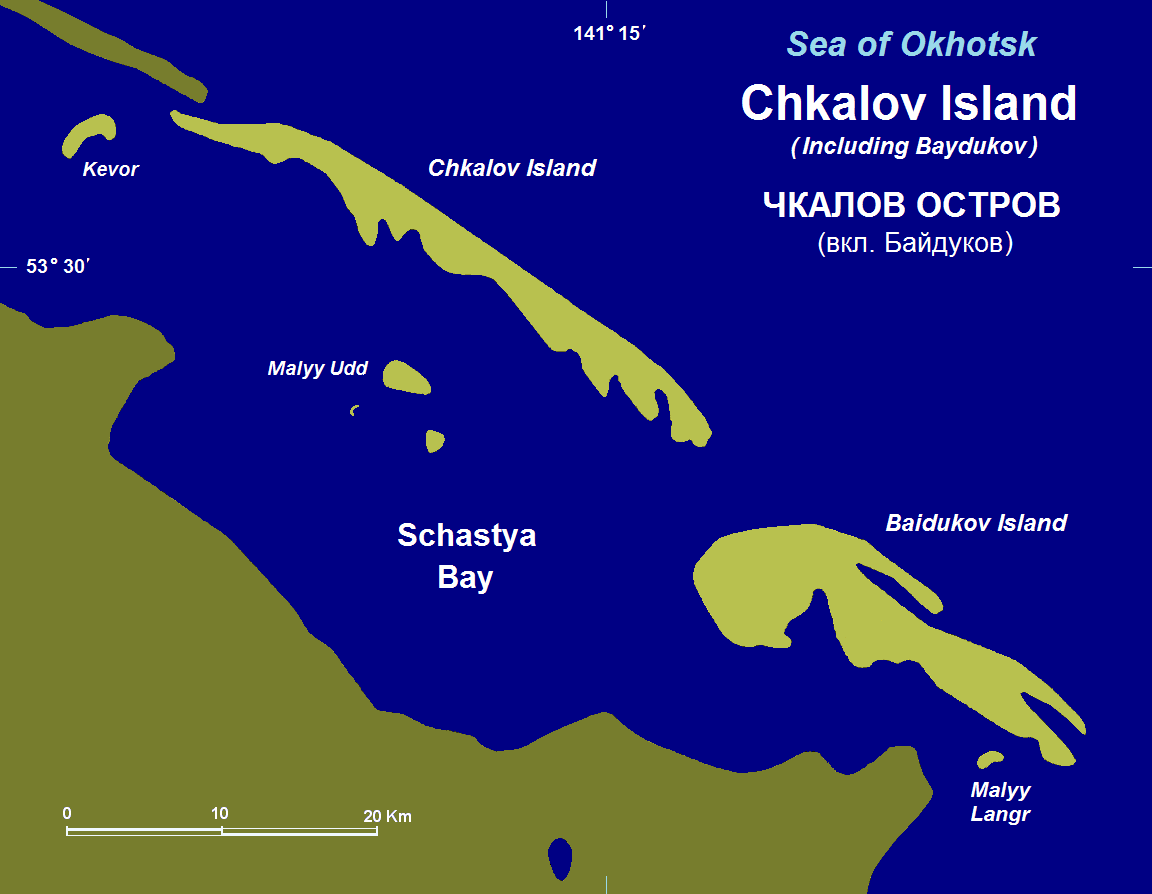 Island map